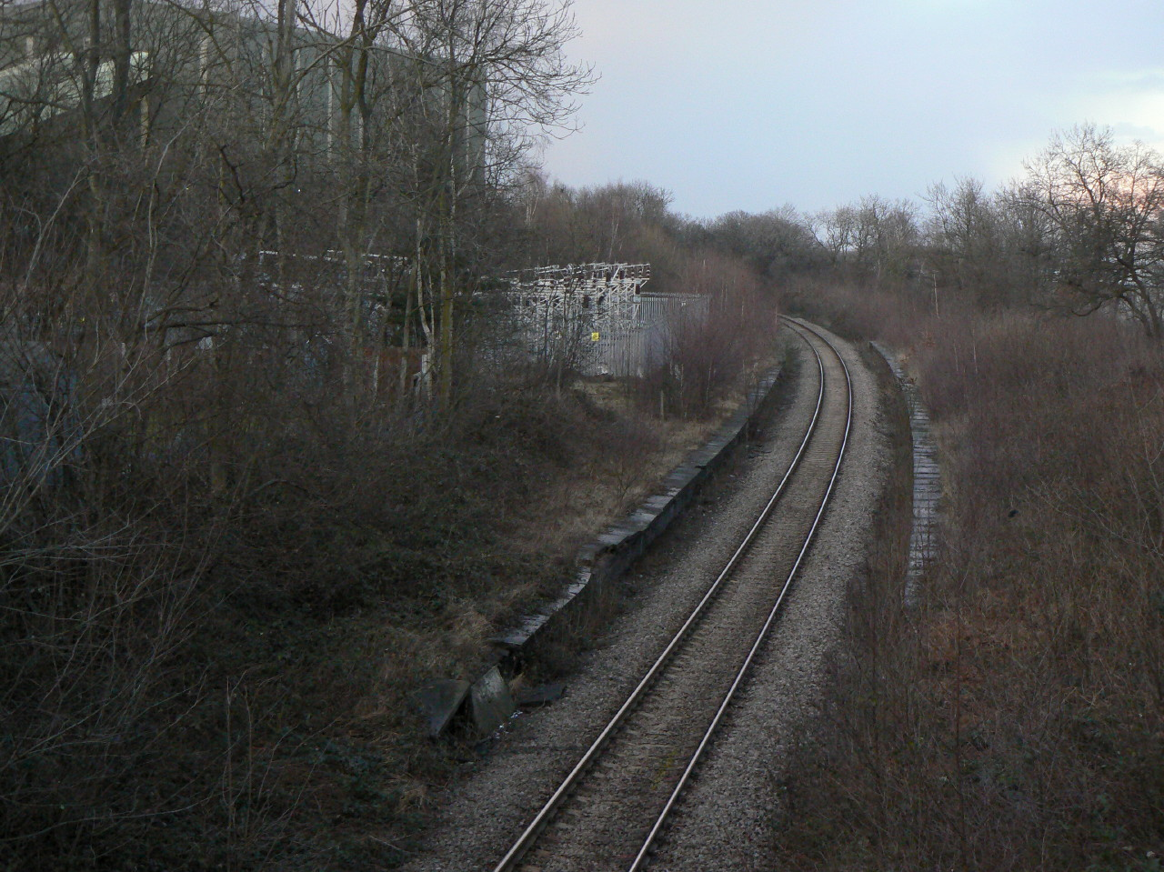 Maltby Station On the former South Yorkshire Joint Railway, a line principally geared to the transport of coal from the local coalfield, it only enjoyed passenger services between 1910 and 1929. There would at one time have been two tracks through the station.